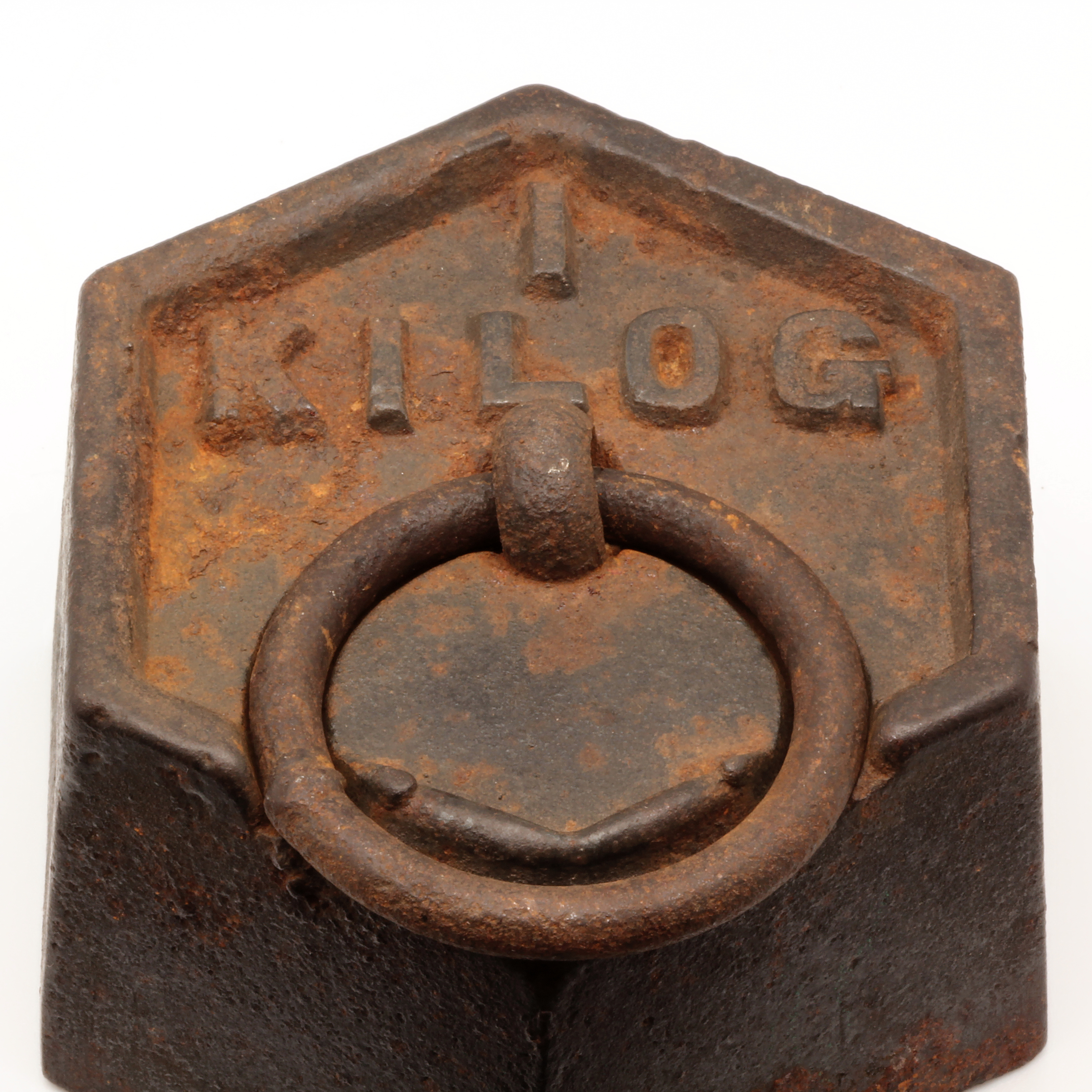 Antique 1 kg weight (no longer legal for trade[1])